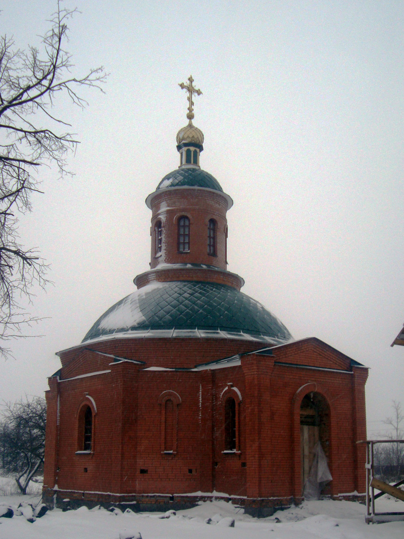 St. Nicholas Church — Russian Orthodox church in Ladyzhynka, Umanskyi Raion, Cherkasy Oblast, Ukraine. Built of brick, in the Russian Revival style.